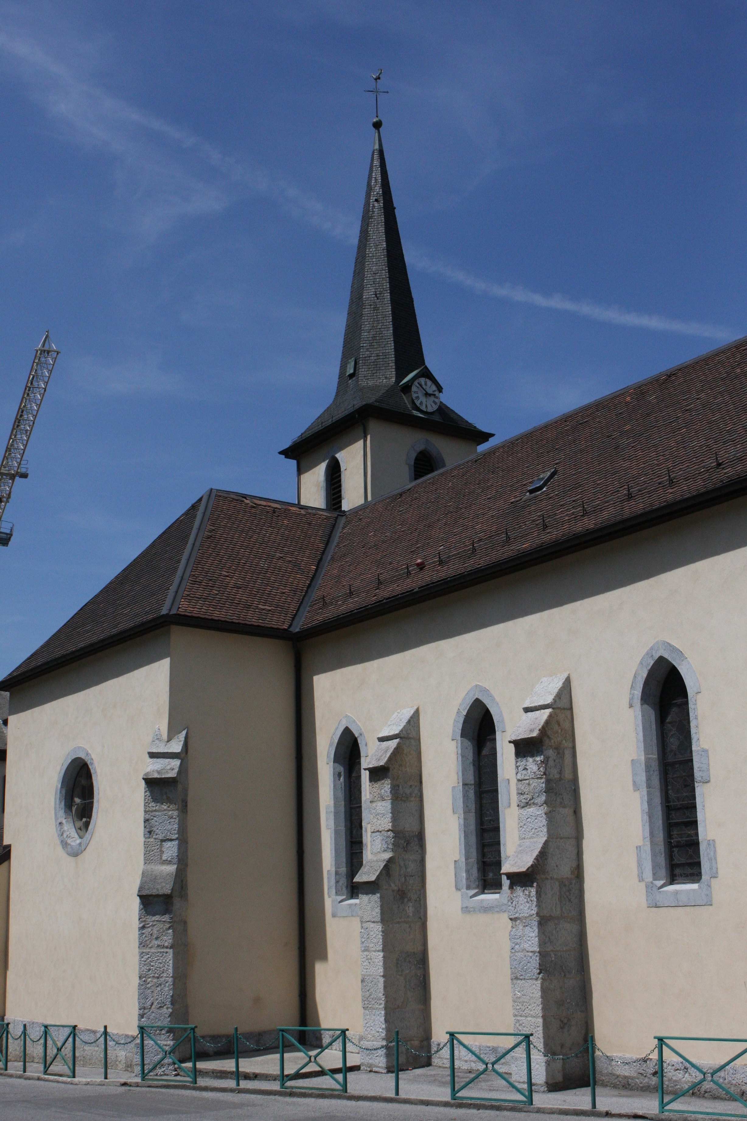 church in Monnetier-Mornex